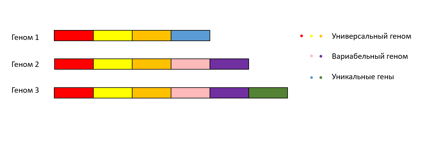 Pangenome shown as a simple scheme.